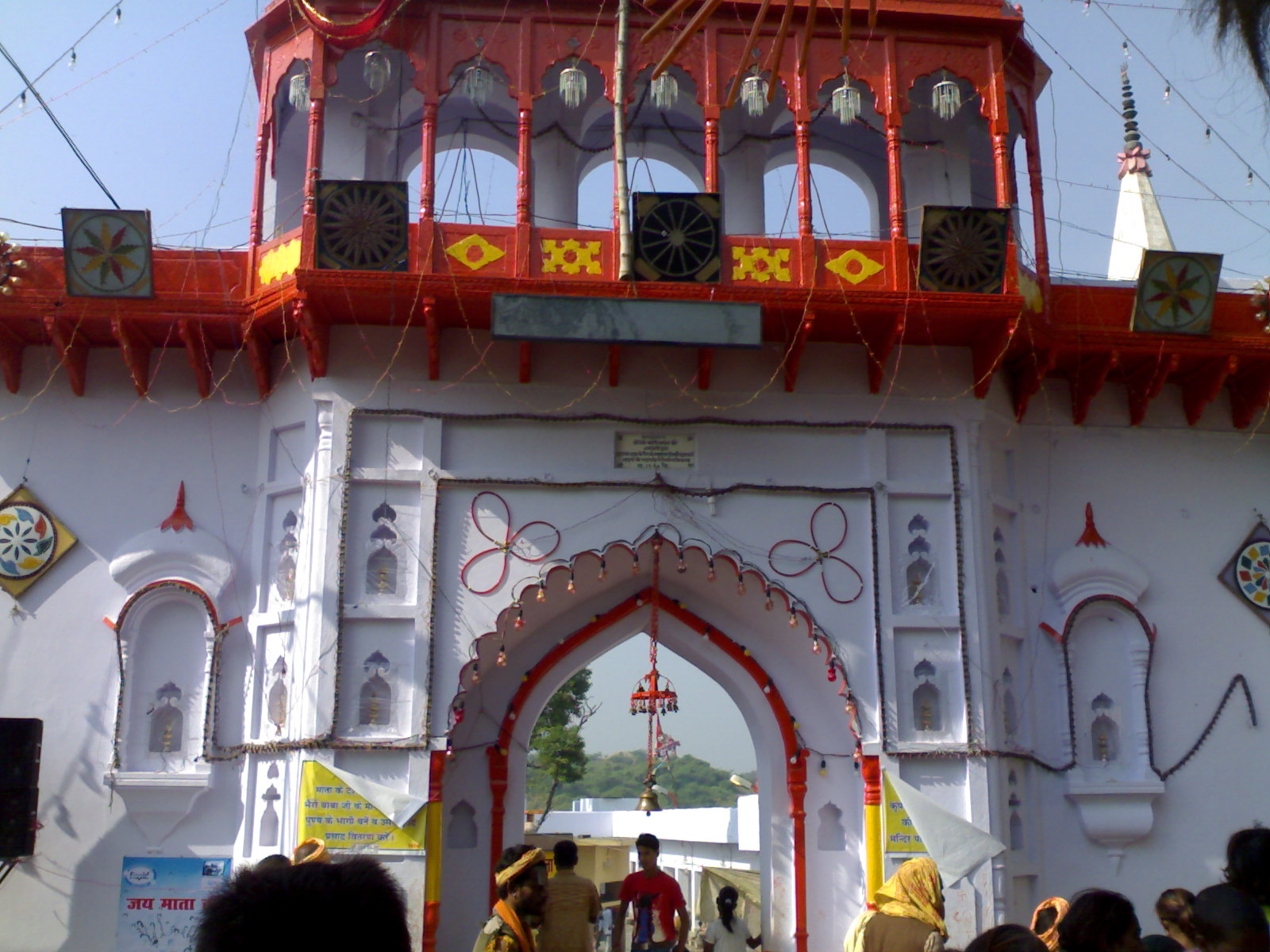 Its a Shakti Peeth